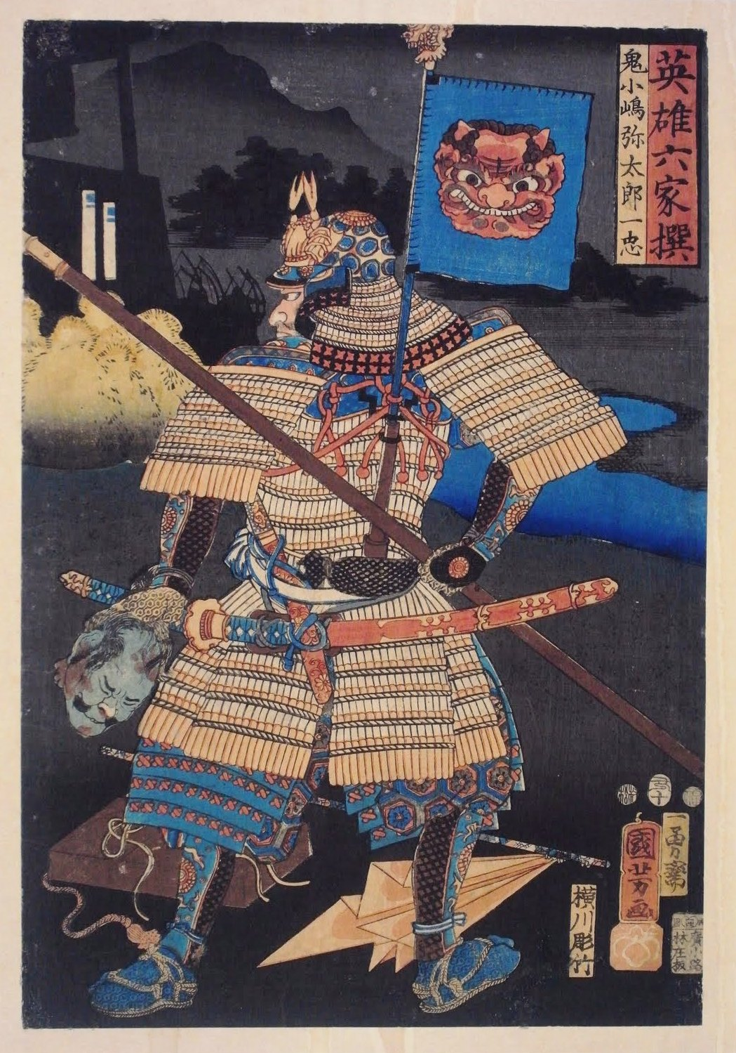 An ukiyo-e of the samurai Onikojima Yatarō. A back view of Onikojima Yatarô Kazutada in armor holding a spear and a severed head.